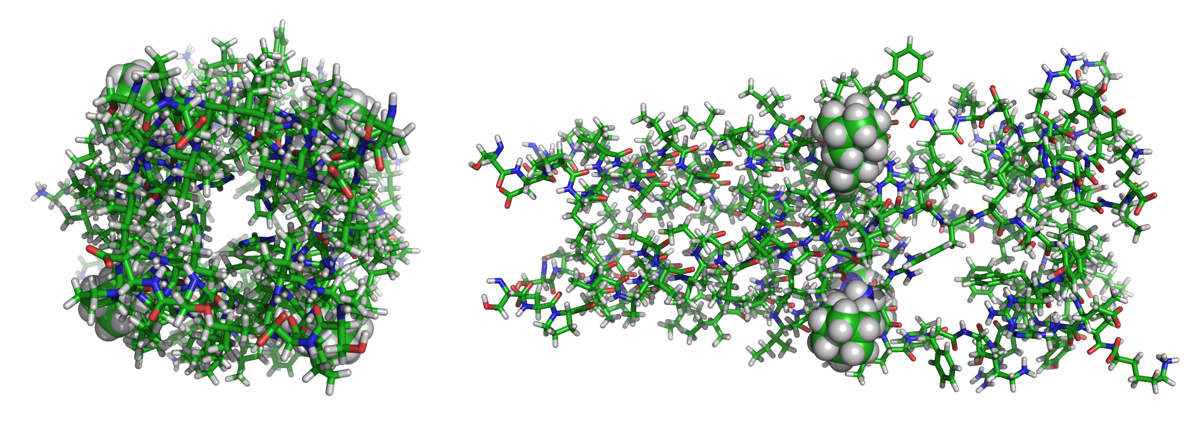 3d stick model of M2 influenza A hull protein from above and sideways after PDB 2RLF, complexed with rimantadin (balls). Ref.: Schnell JR, Chou JJ (January 2008). "Structure and mechanism of the M2 proton channel of influenza A virus". Nature 451 (7178): 591–5. PMID 18235503.